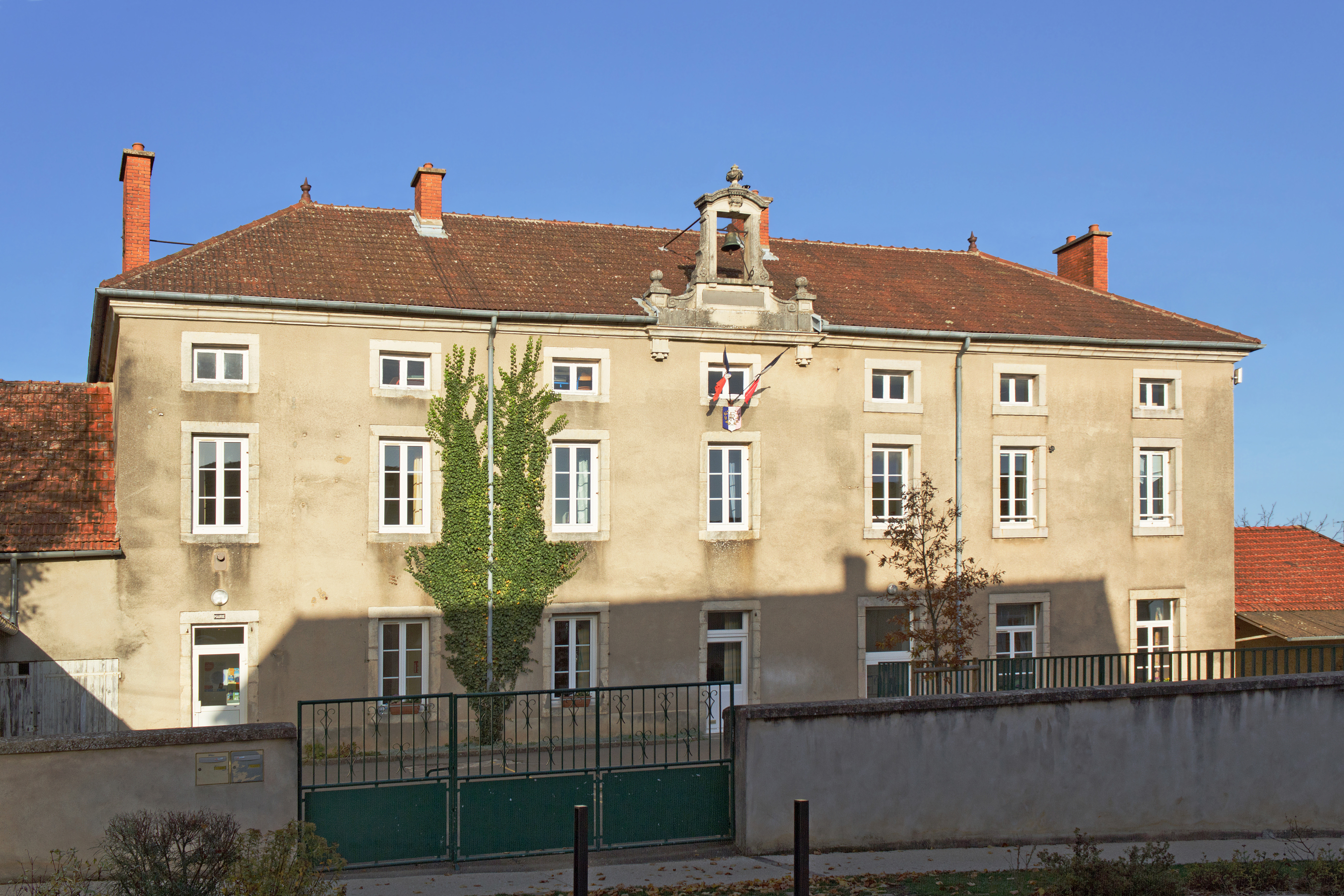 Townhall and school of Chaignay